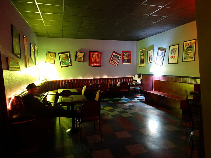 Back room at the Bottom of the Hill music venue in San Francisco, CA, August 2018. Photo by LHCollins.